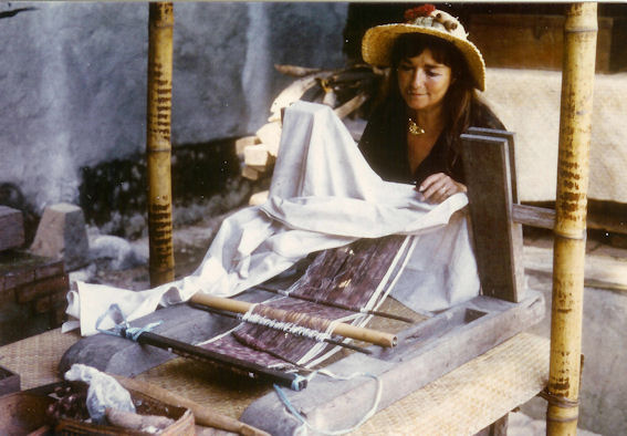 Backstrap loom with a partially completed Geringsing. The apparatus is covered with a white cloth to protect it from negative forces. Photo 1982. Dr C J Hazzard